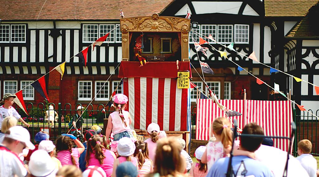 Punch and Judy puppet show Thornton Hough, England